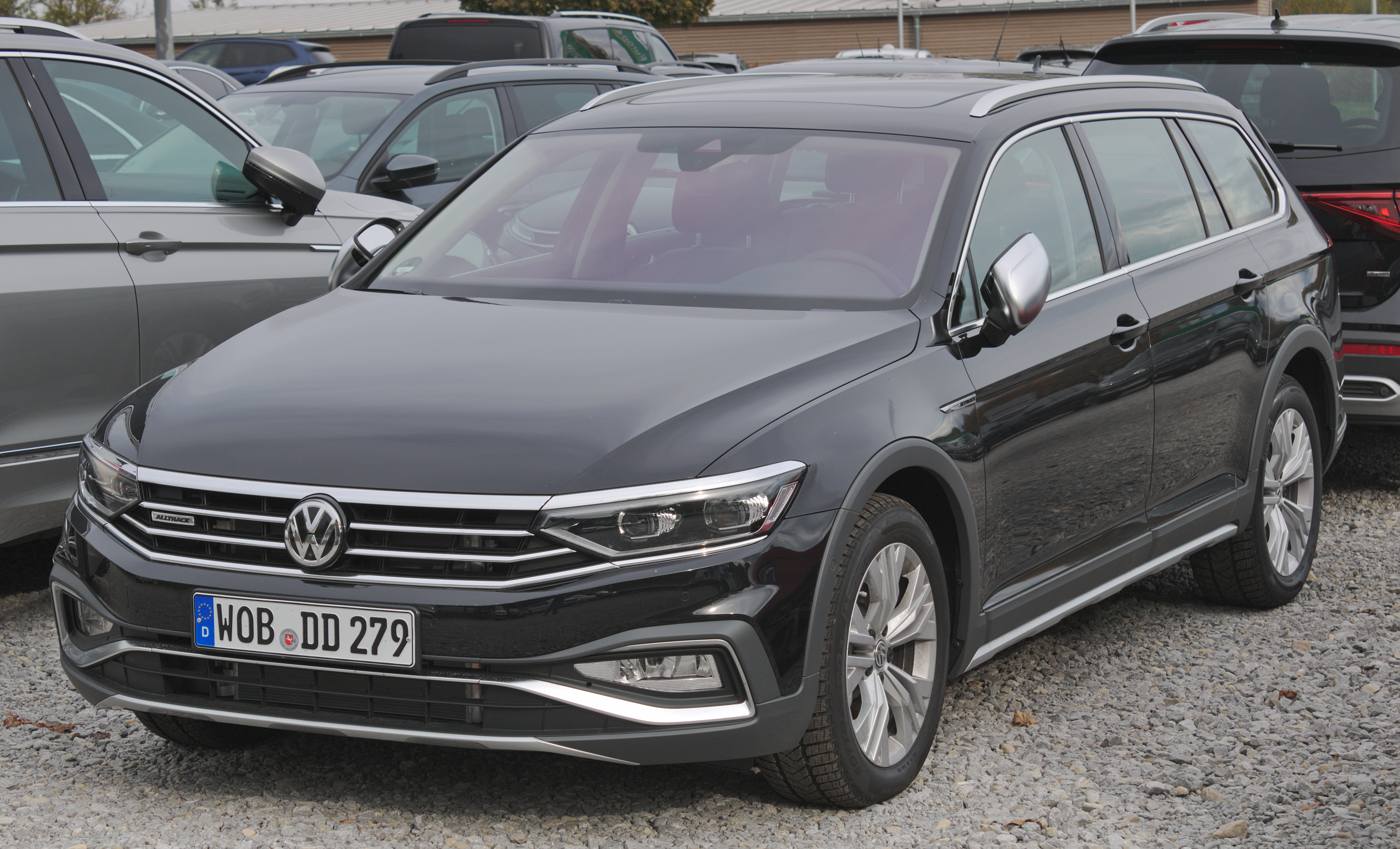 Volkswagen_Passat_B8_(2019) in Stuttgart-Vaihingen